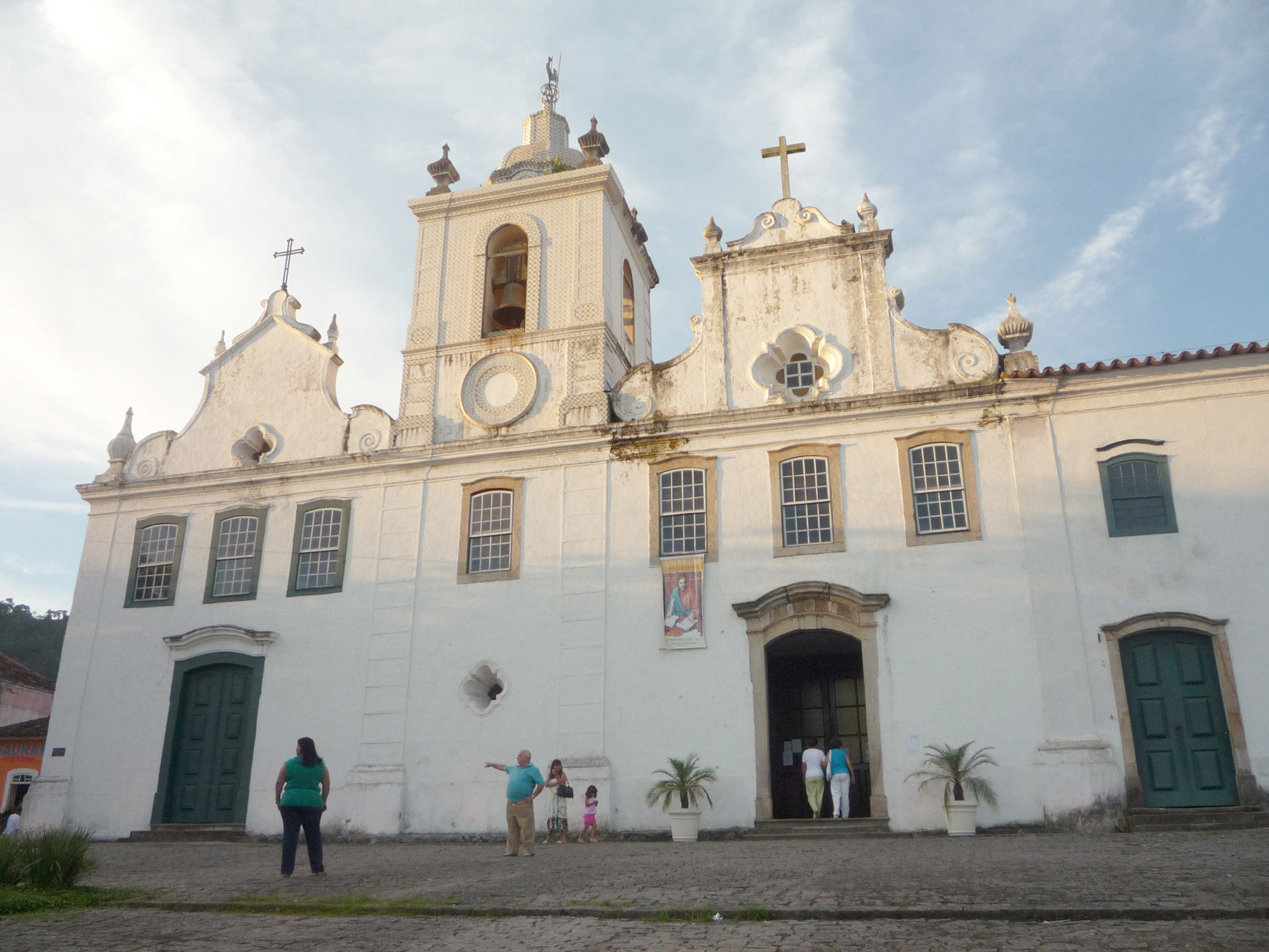 Church and convent of Carmo in Angra dos Reis, Brazil